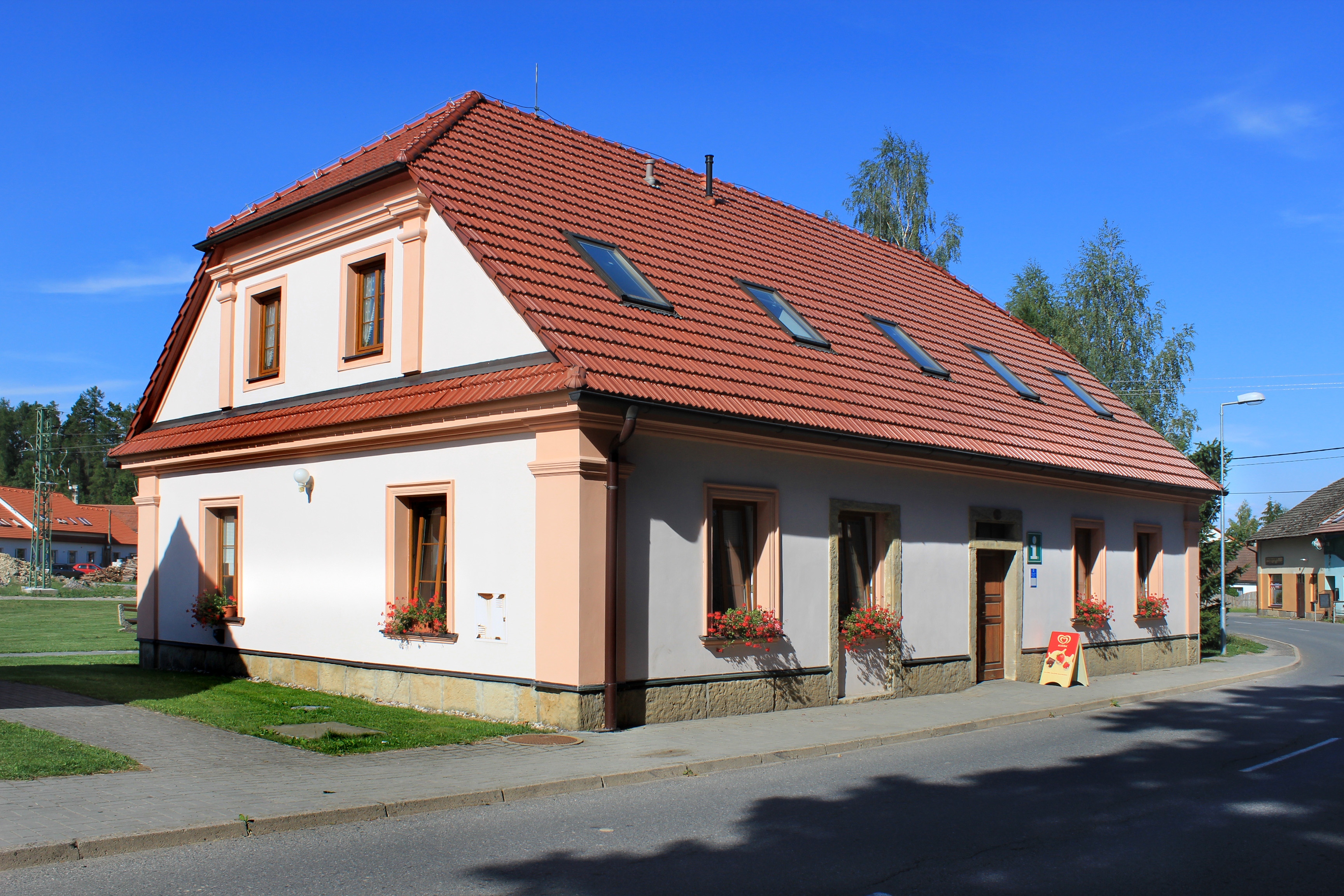 Information center in Poříčí u Litomyšle, Czech Republic.